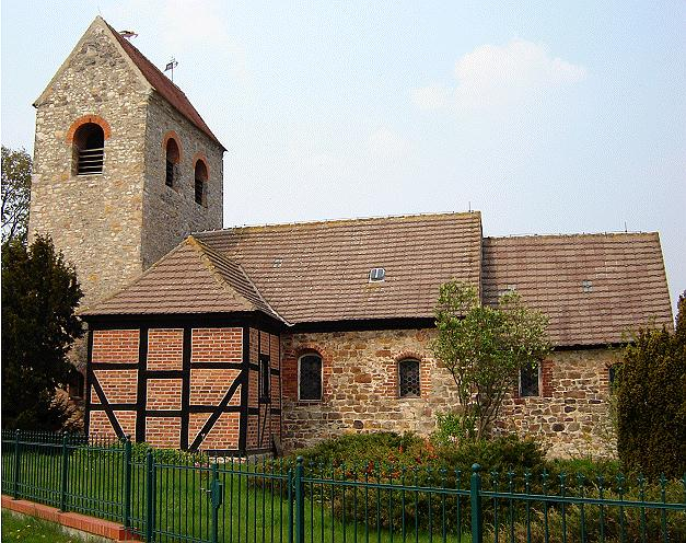 Protestant church in Lostau (Saxony-Anhalt)